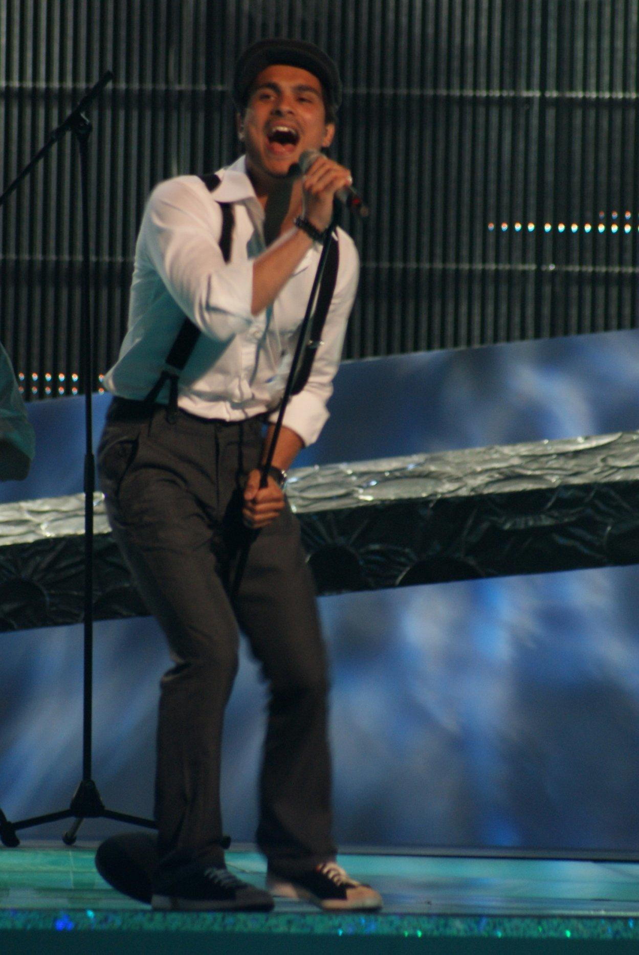 Danish entry in the Eurovision Song Contest - Belgrade 2008 .